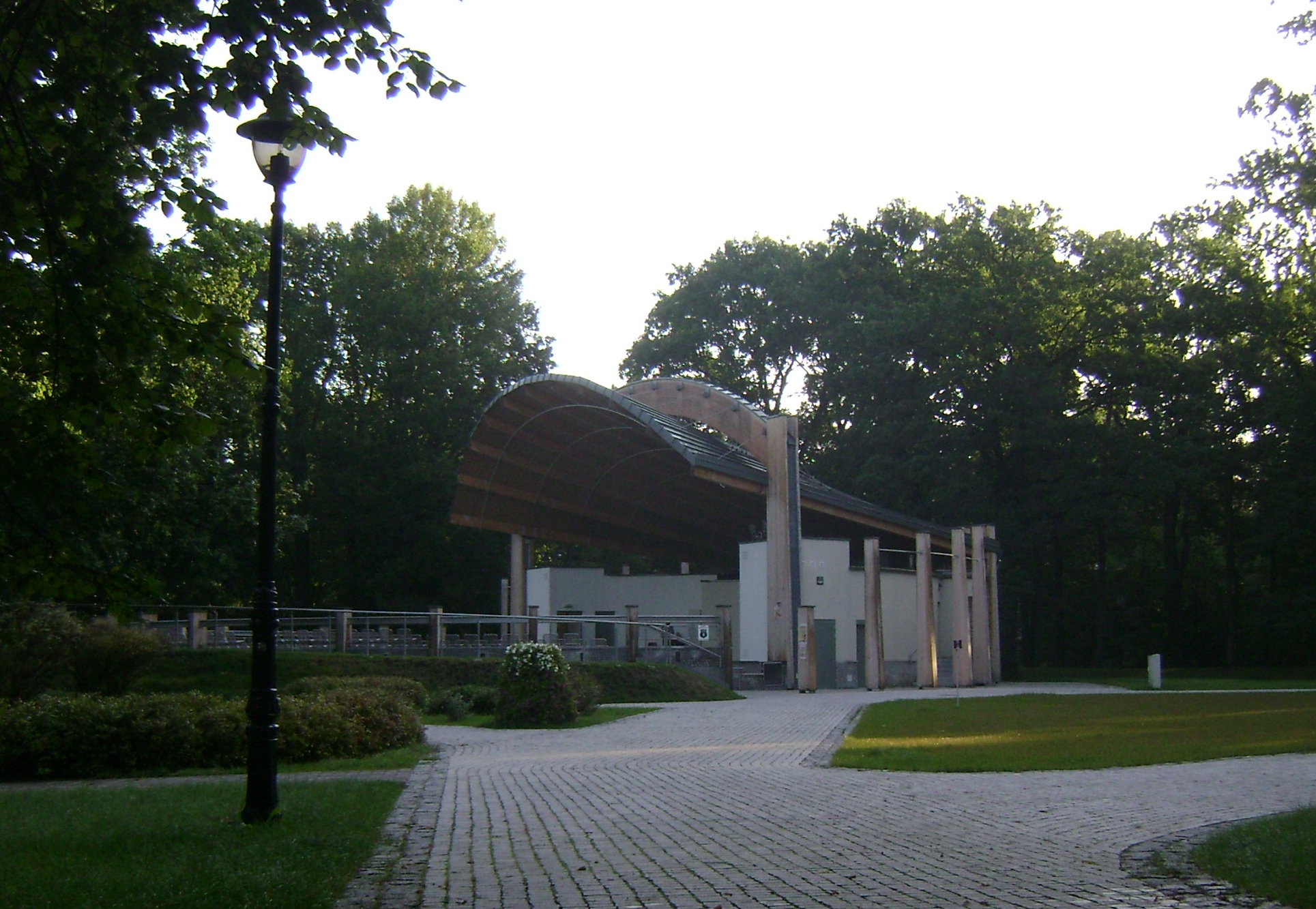 Amphitheater